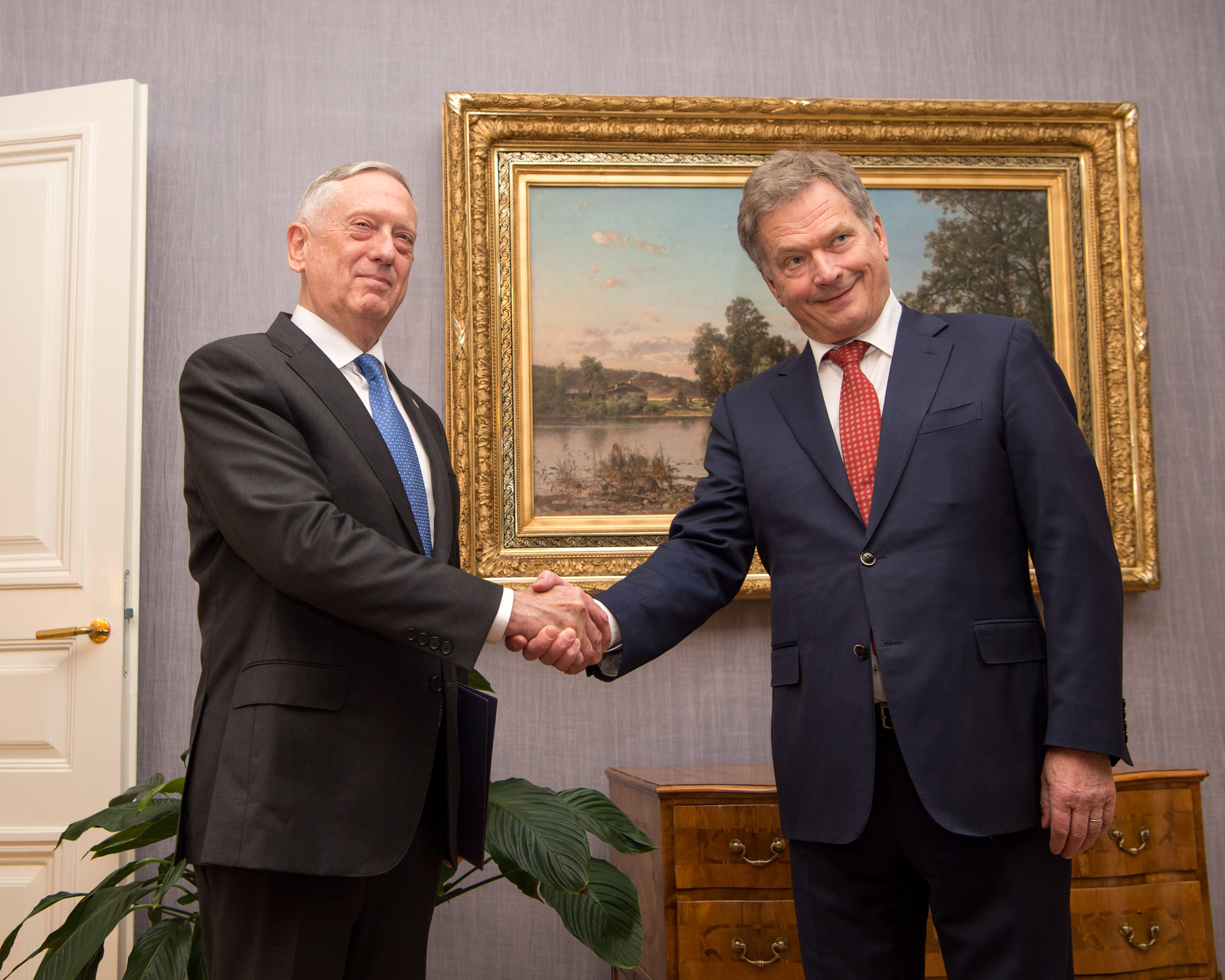 Secretary of Defense Jim Mattis meets with Finland's President Sauli Niinistö at the Presidential Palace in Helsinki, Finland, Nov. 6, 2017. (DOD photo by U.S. Air Force Staff Sgt. Jette Carr)